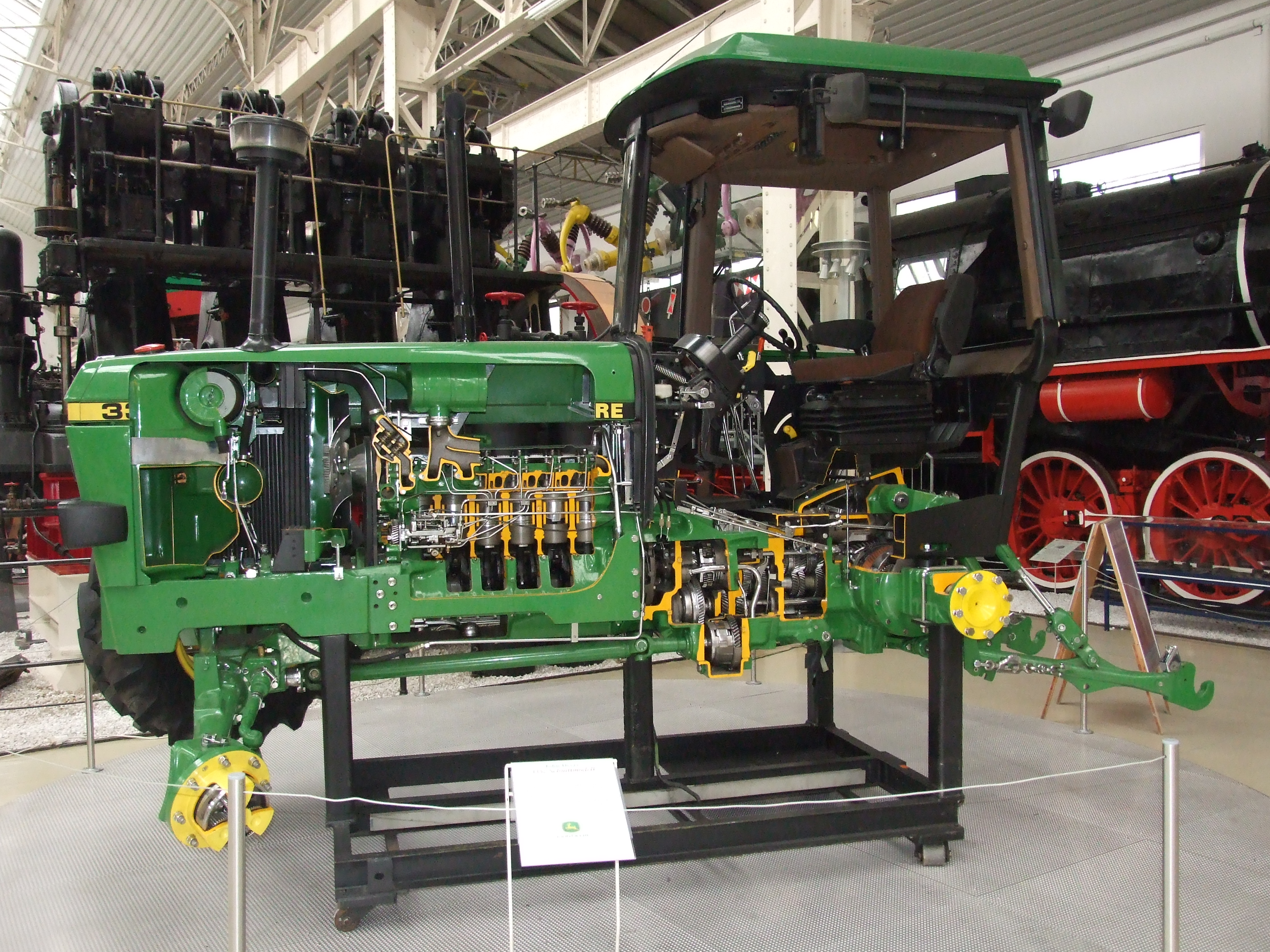 John Deere 3350 tractor cut in Technikmuseum Speyer